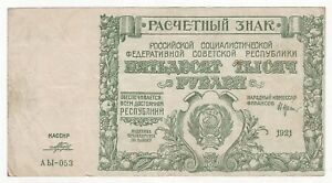 A 50000 Sovznak issued in 1921